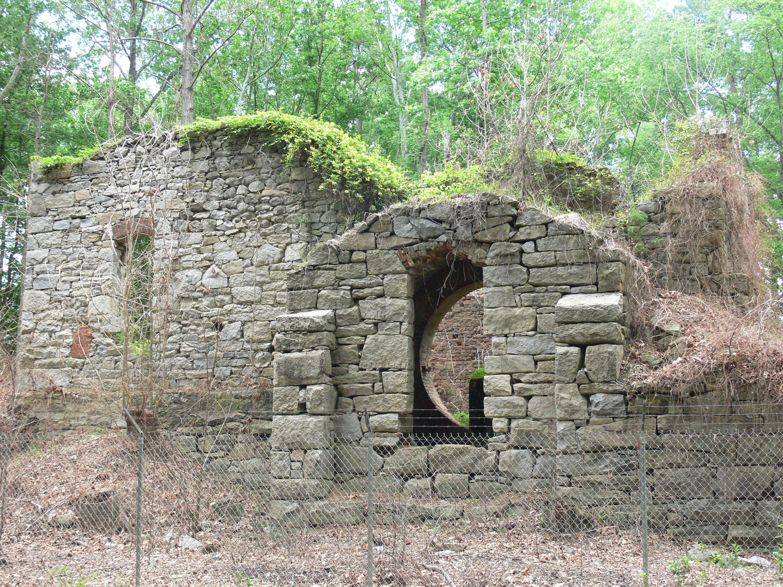 The ruins of the Grove Shaft from the Midlothian coal mines; Mid-Lothian Mines Park, Midlothian, Virginia.